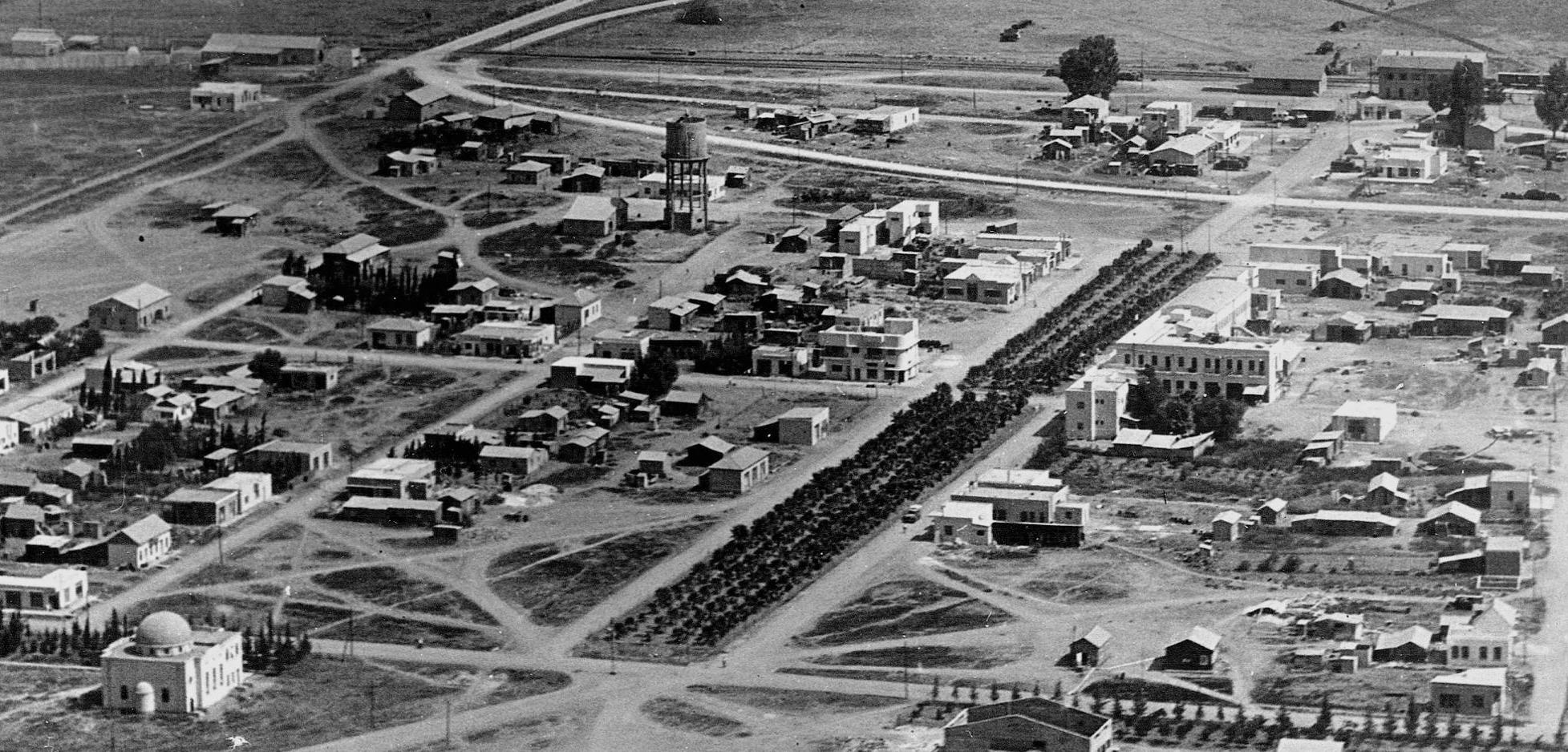 AN AERIAL PHOTO OF THE SETTLEMENT AFULA. צילום אויר של היישוב עפולה. On the bottom left is the great synagogue of Afula. Beyond it is the wter tower of Afula, now on Rabbi Levin street 10, Afula. The straight road coming out of Afula is the B60 road to Nazereth. Far away are the mountains of Nazereth. To the right of the road is Balfouria and farther away is Tel Adashim. Kfar Gideon is also seen on both sides of B60.